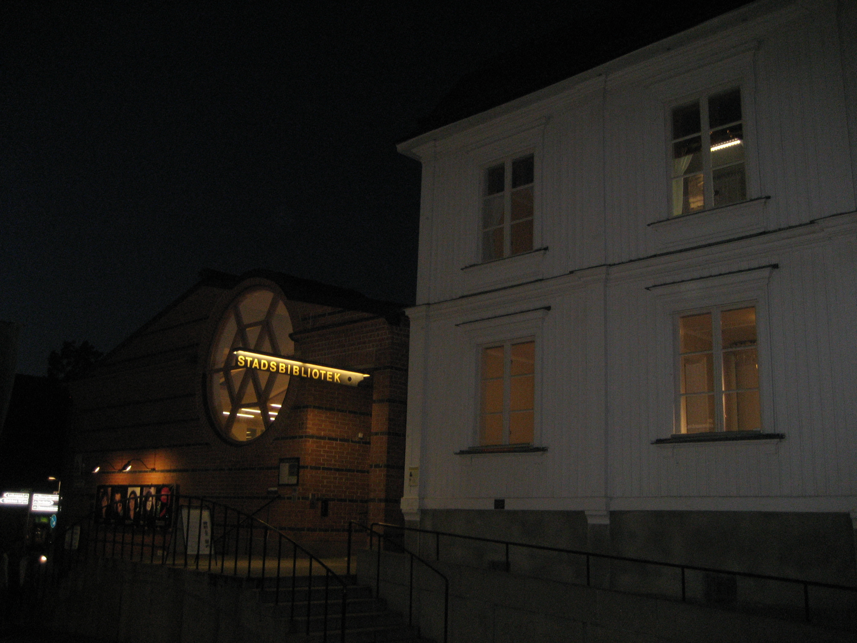 Public library (Stadsbibliotek), Svartbäcksgatan 17, Uppsala (Sweden)